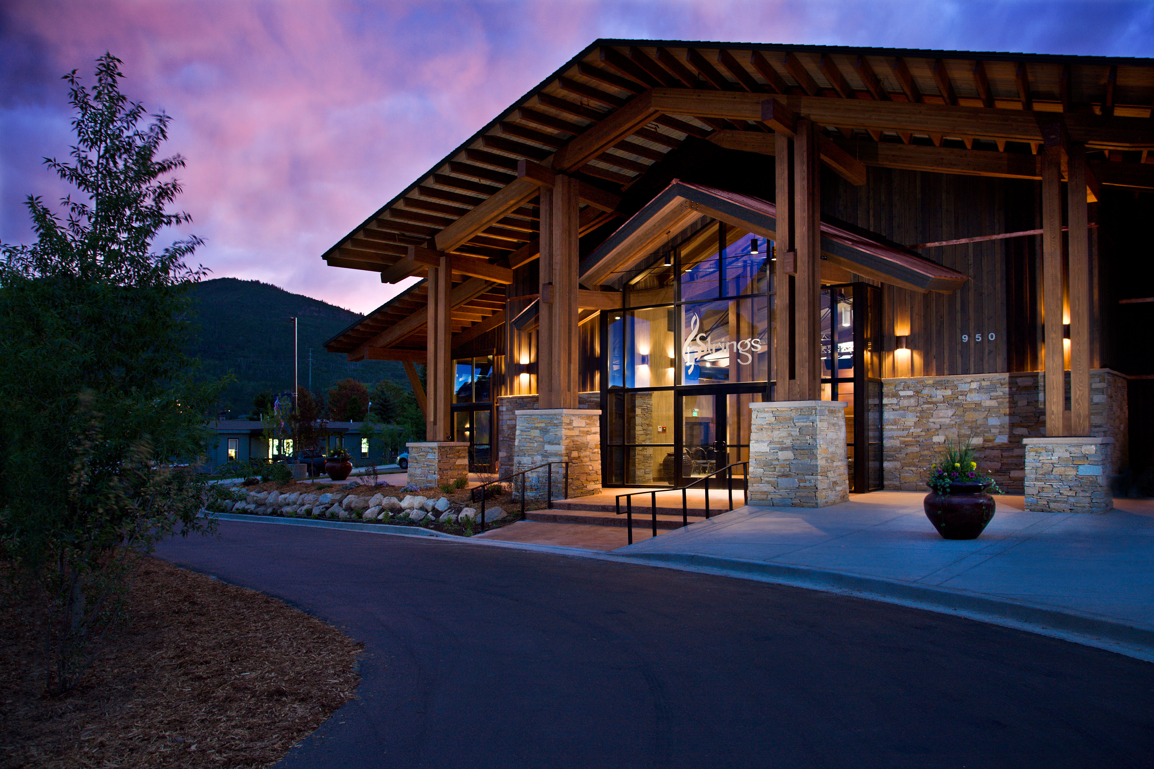 Strings Music Festival is located in Steamboat Springs, Colorado. The bulk of the festival falls between June and August with a few concerts in the winter months. The festival started in 1988 and the award-winning Strings Music Pavilion was constructed in 2008 and seats 550 people.